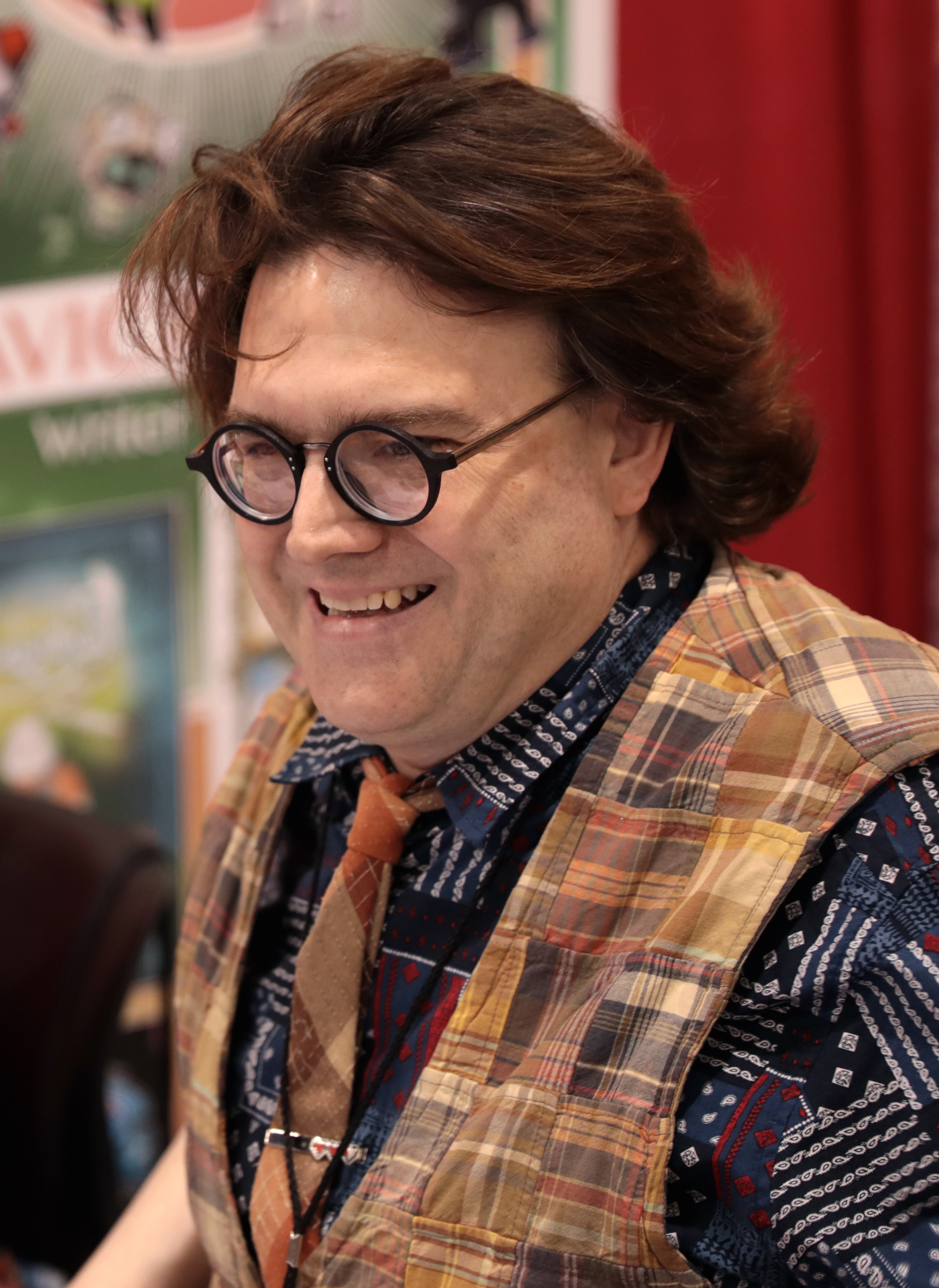 Rikki Simons speaking at the 2019 Phoenix Fan Fusion in Phoenix, Arizona.